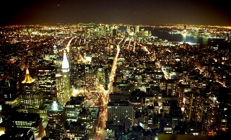 Manhattan, New Yorkfilm2_21